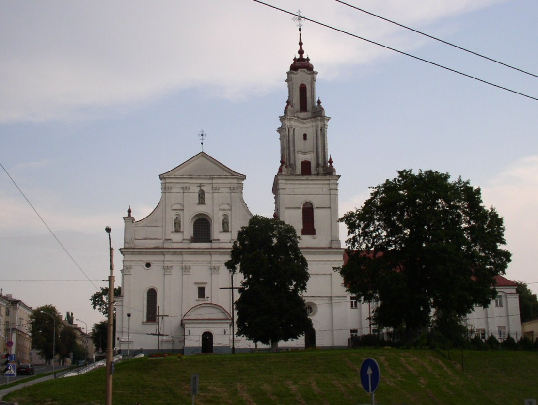 Church of the Discovery of the Holy Cross. Hrodna, Belarus.